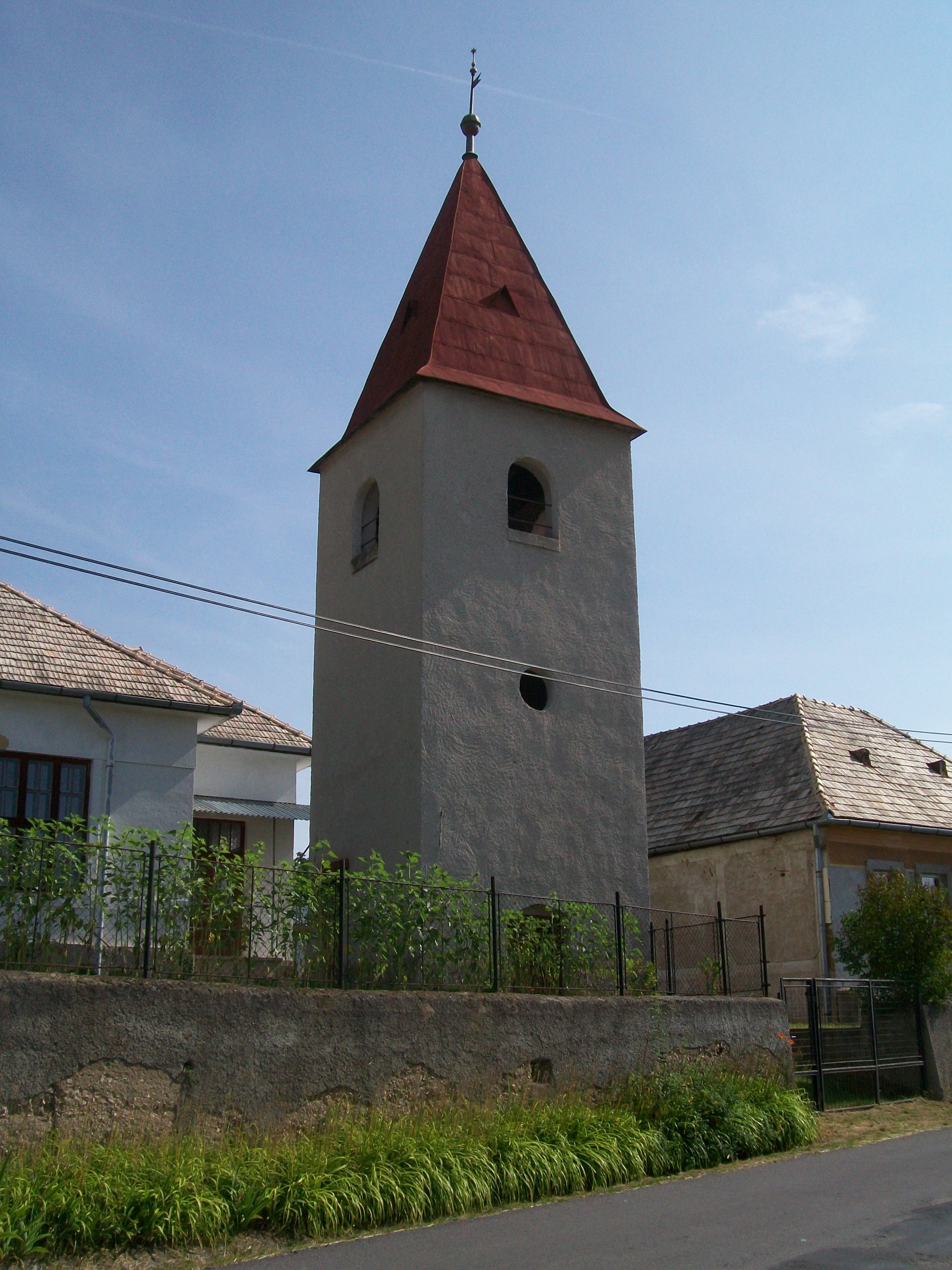 Belfry Gregorova VieskaSlovenčina: Zvonica v Gregorovej Vieske